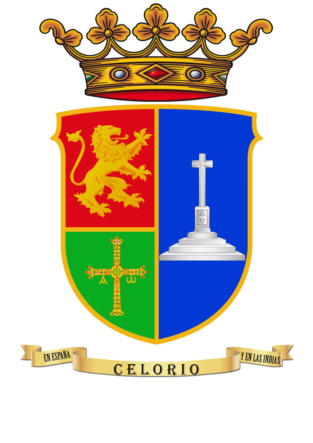 Original sign of Celorio de Llanes